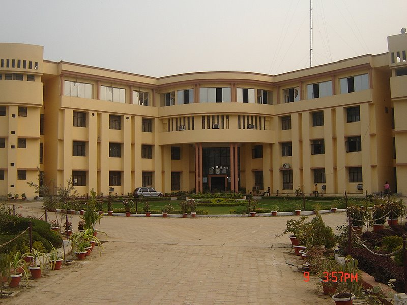 Sri Ramswaroop Memorial College of Engineering and Management Lucknow